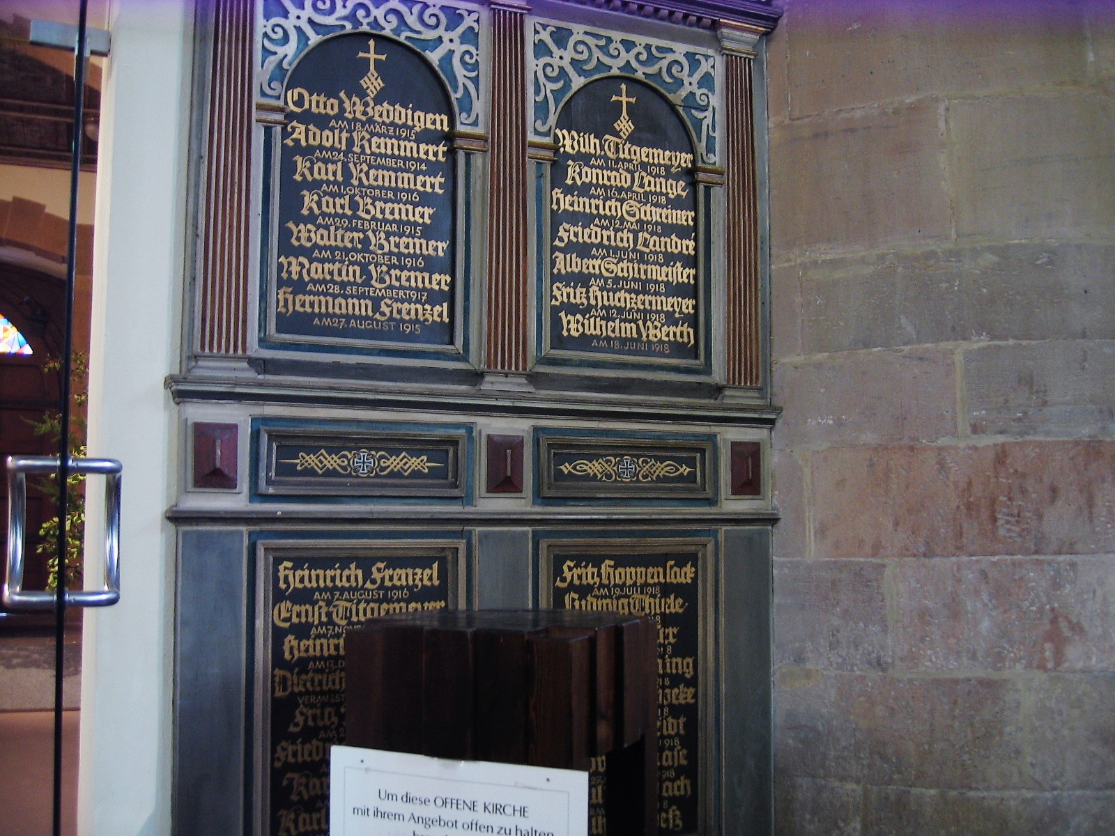 in Herford, District of Herford, North Rhine-Westphalia, Germany.